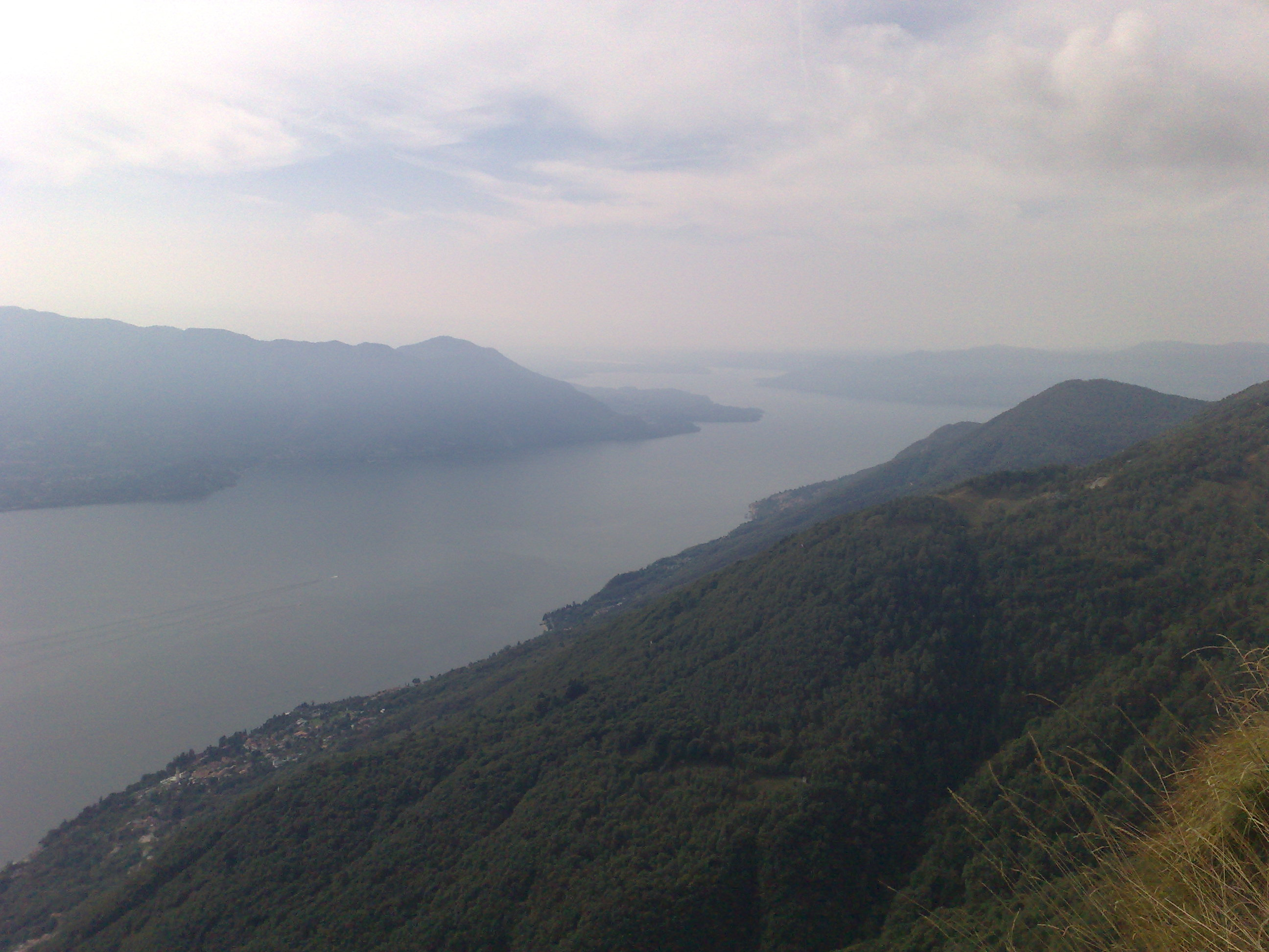 A view of Lake Maggiore from the Cadorna Line fortifications in Piancavallo.